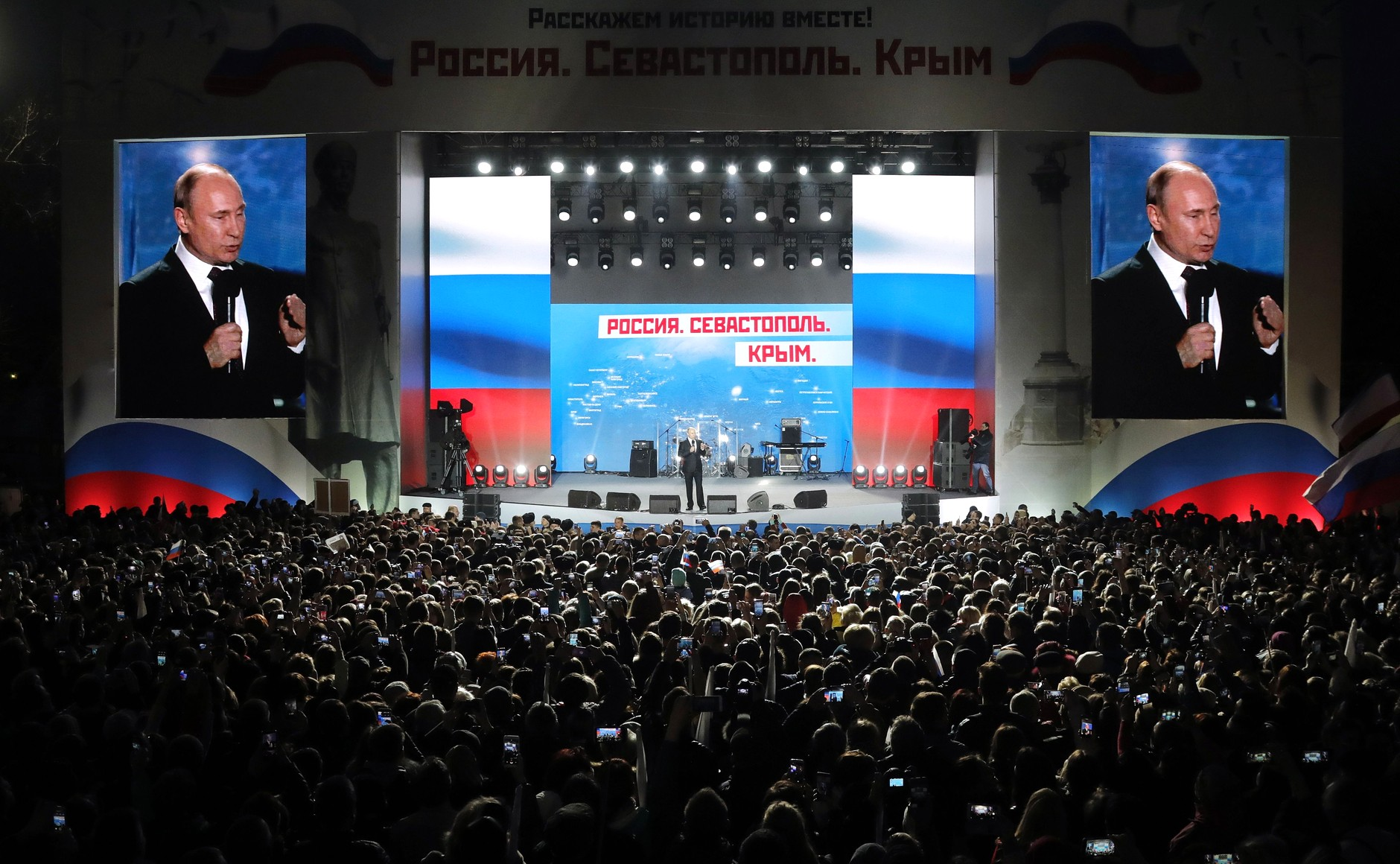 Vladimir Putin rally in Sevastopol on 14 March 2018